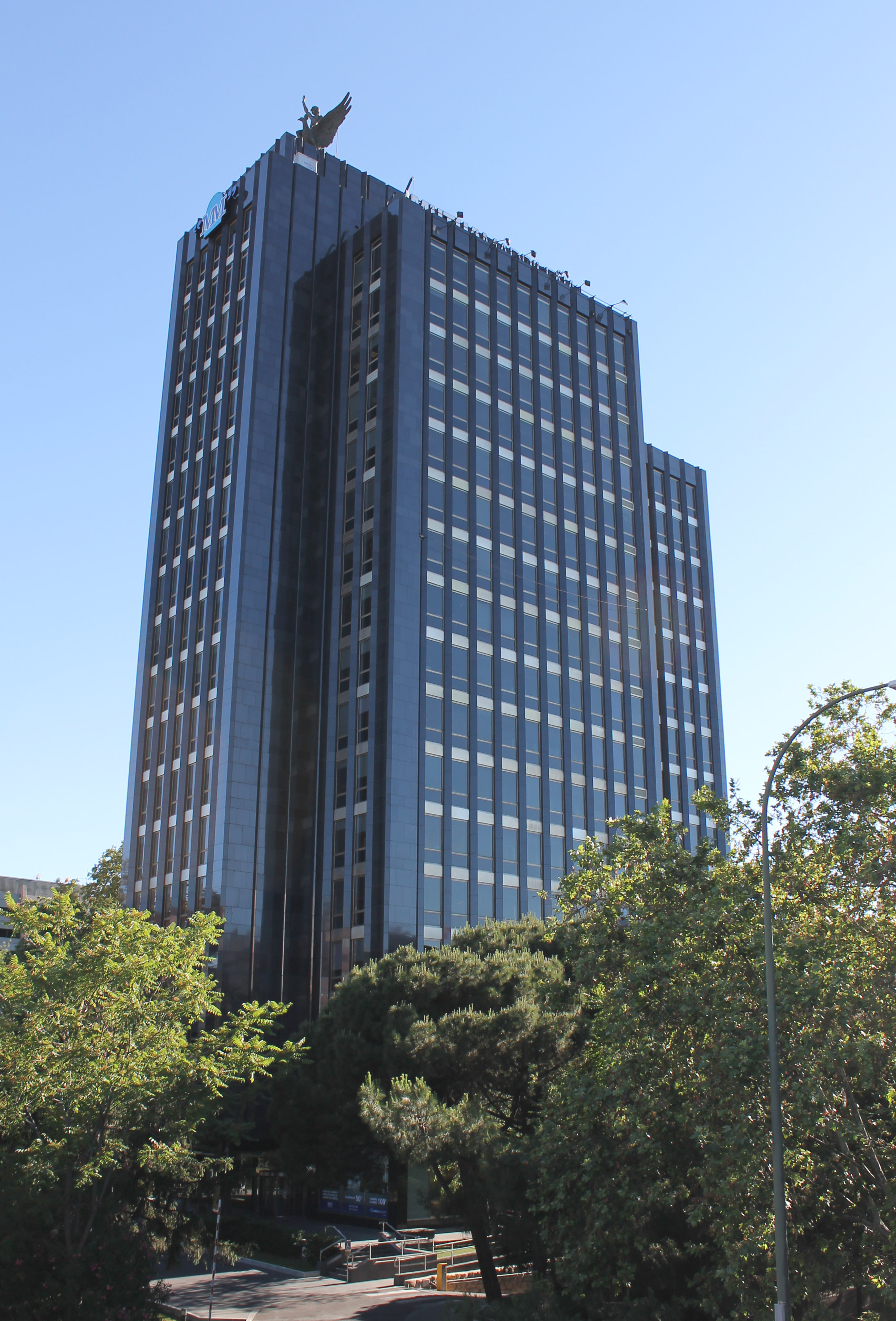 View of La Unión y el Fénix Español building at 33 Paseo de la Castellana (avenue) in Madrid (Spain).